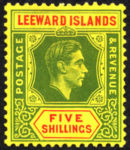 A five shilling stamp of the Leeward Islands. Issues of 1938-51 Series: King George VI Catalog codes: Mi. 103 Issued on: 1938-11-25 Emission: Definitive Perforation: comb 14 Printing: Typography Colors: Green, Red Face value: 5 s - British shilling Paper: yellow